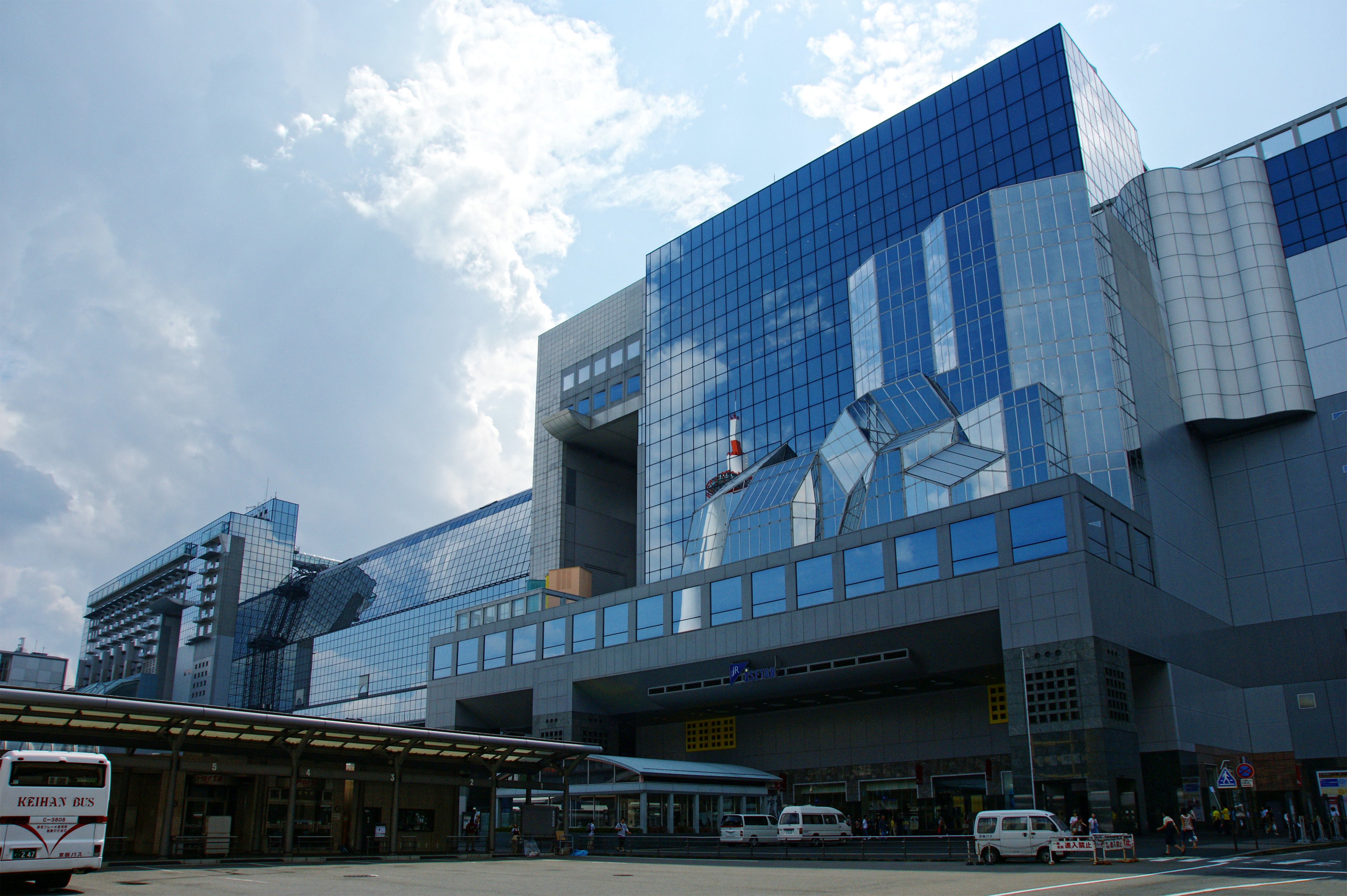 Kyōto Station in Kyoto, Kyoto prefecture, Japan